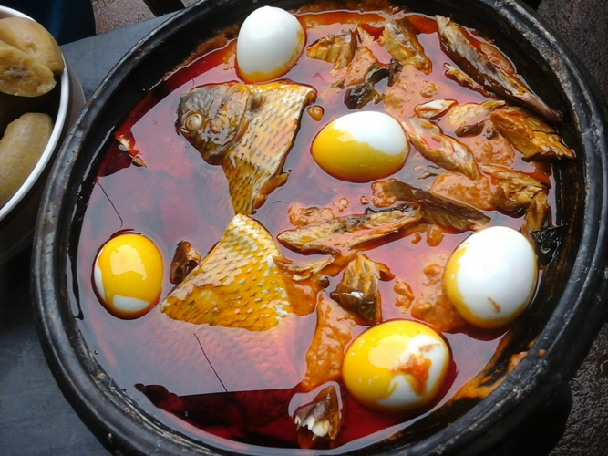 Fried Groundnut paste with hot palm oil very much liked by the people of Akyem in the Eastern Region of Ghana. This is an image of food from Ghana